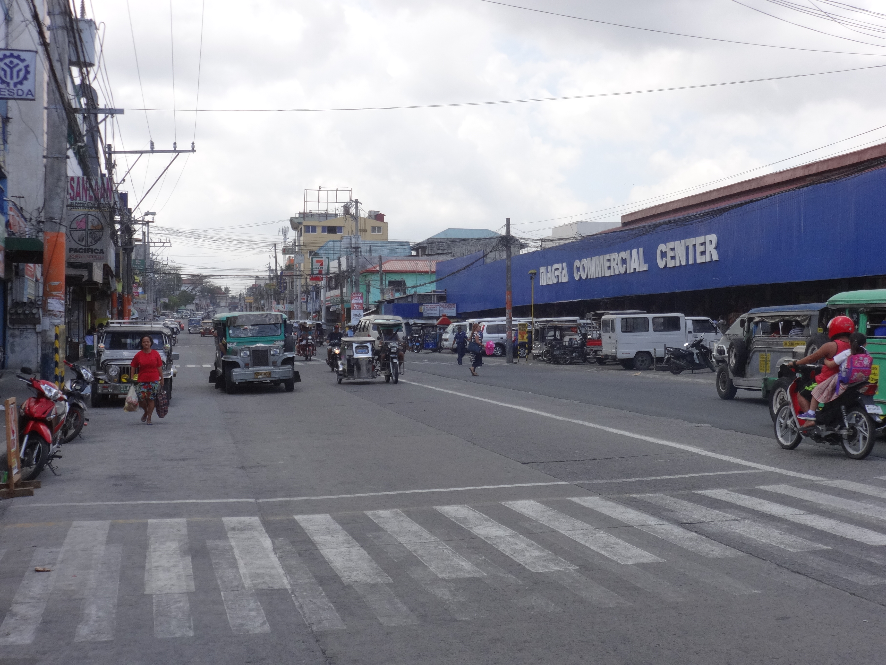 Gen. Mariano Alvarez town proper at Congressional Road, Gen. Mariano Alvarez, Cavite